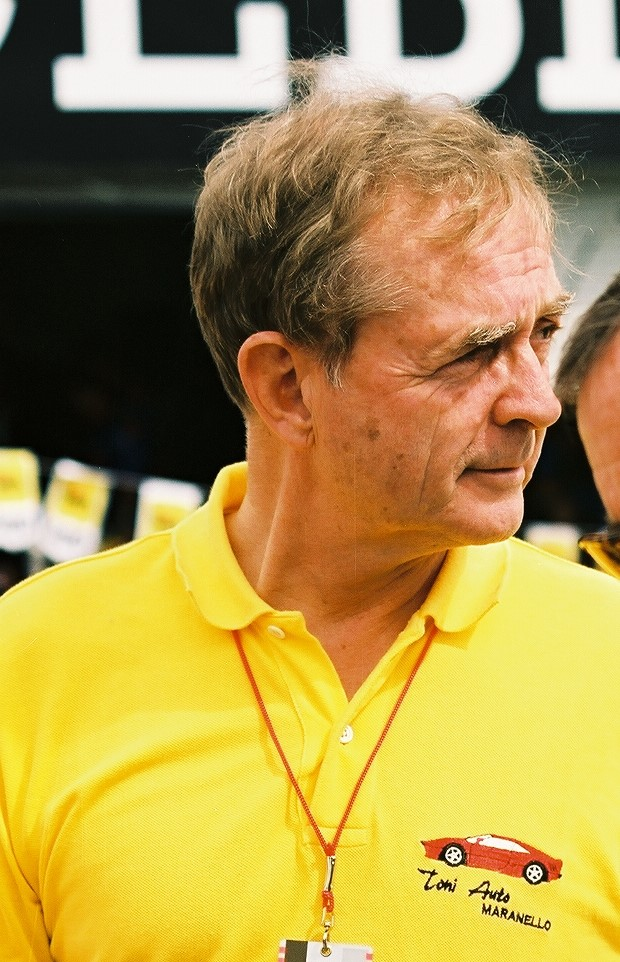 Phil Hill (left) and Jackie Stewart (right) at the 1991 United States Grand Prix.